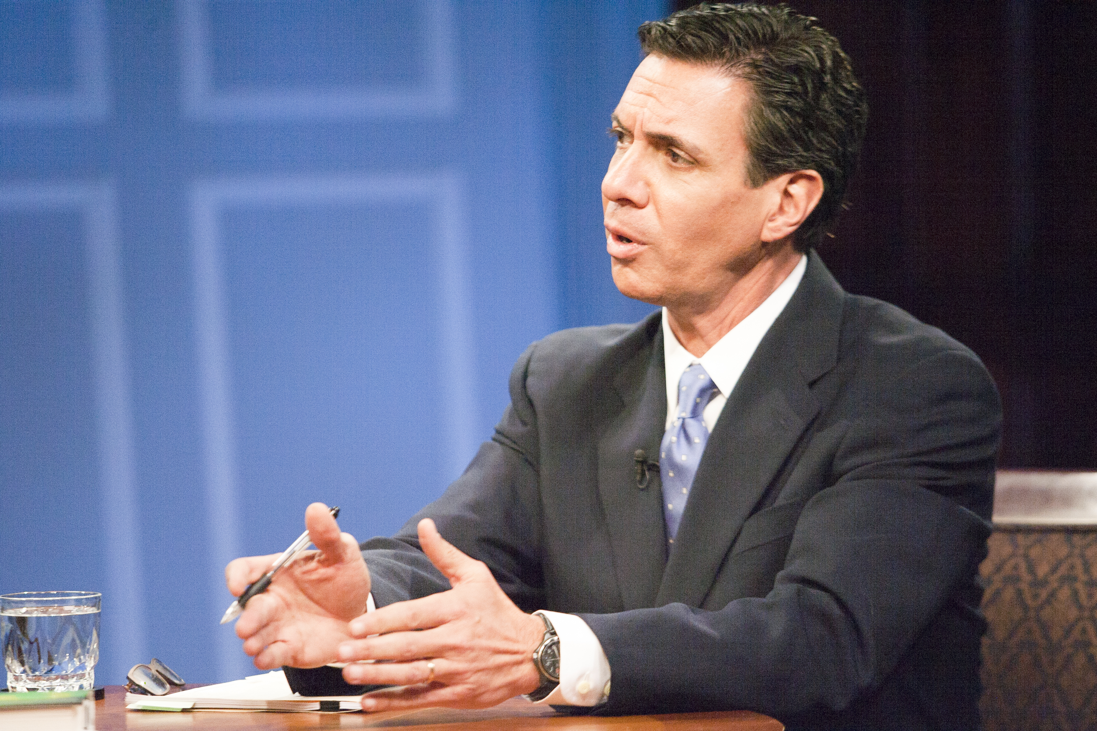 Mitchell Zuckoff is a professor of journalism at Boston University.